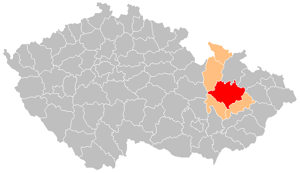 District of Olomouc